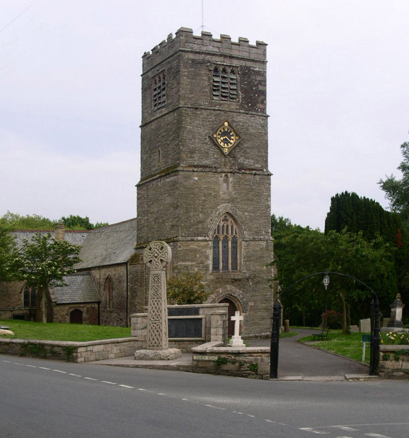 St. Andrew's Church Tywardreath, Cornwall